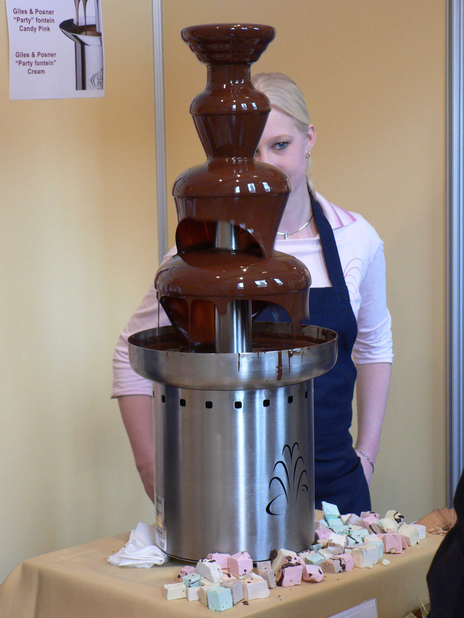 Chocolate fountain